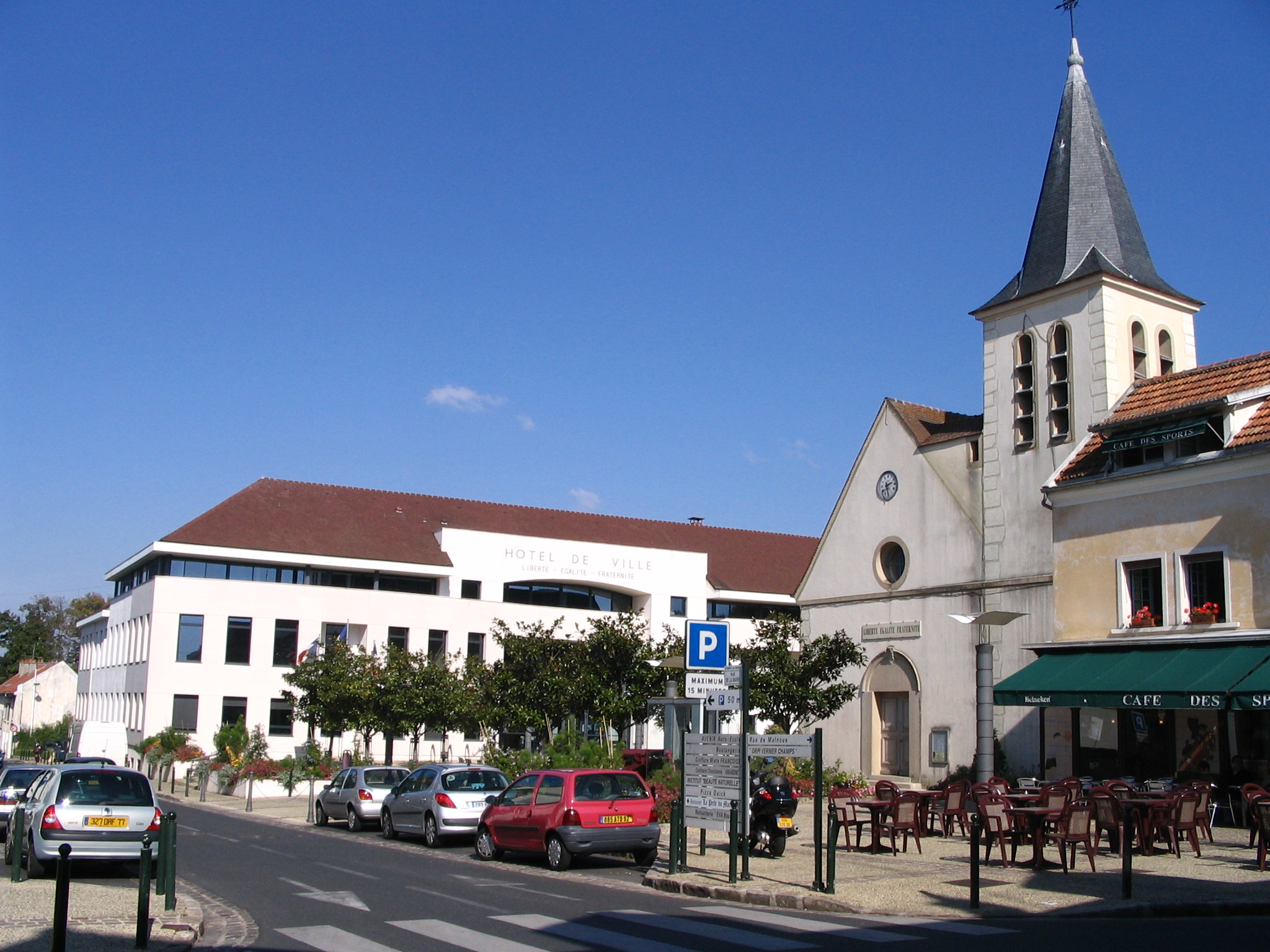 The church and town hall of Champs-sur-Marne, Seine-et-Marne, France.